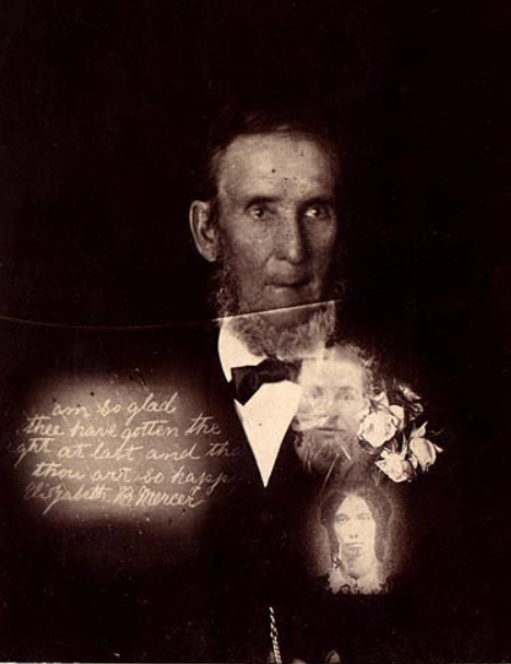 Alleged spirit photograph by the medium Edward Wyllie. His photographs were revealed to be fraudulent.